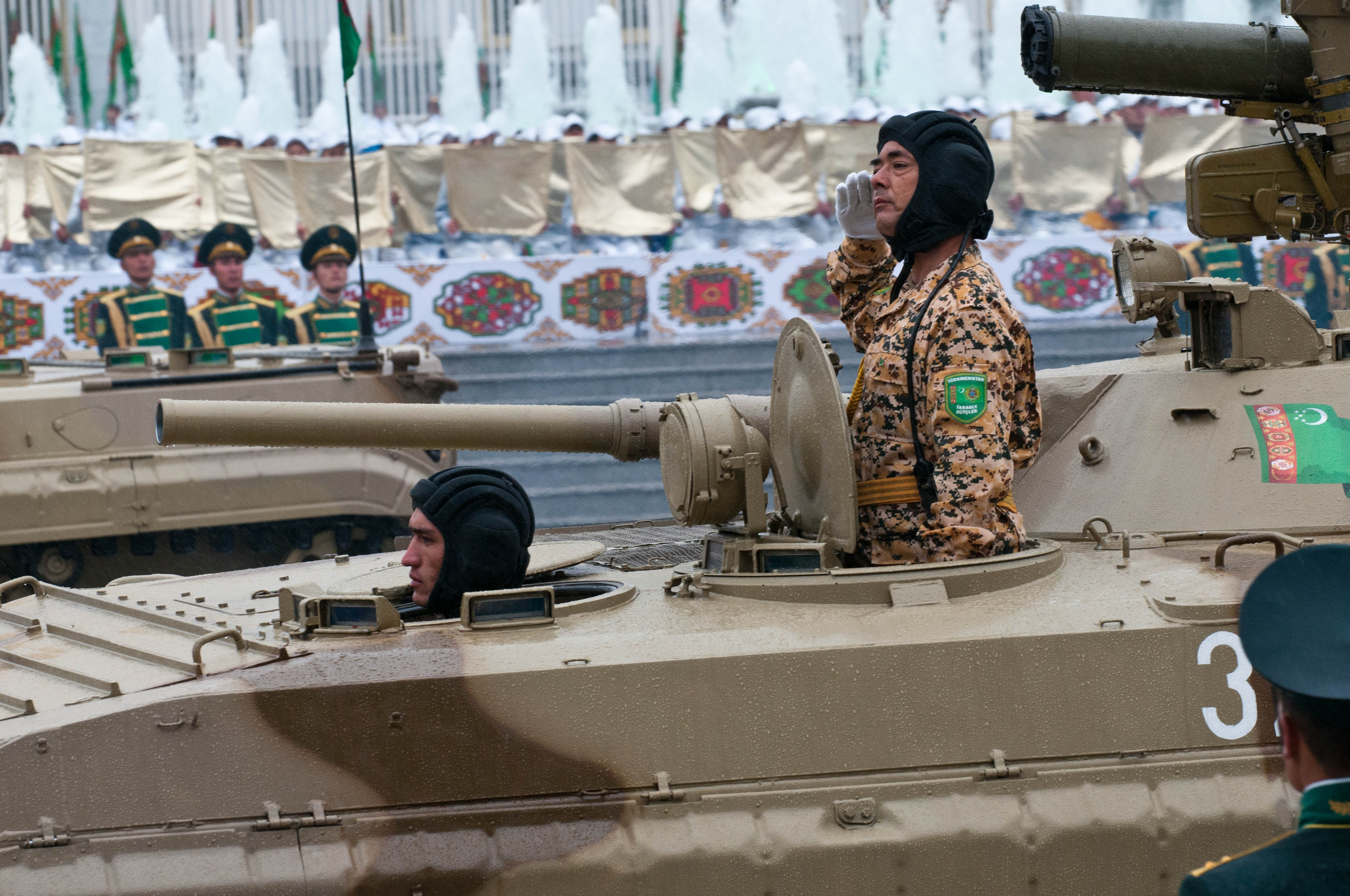 Celebrating the 20th year of independence in Turkmenistan